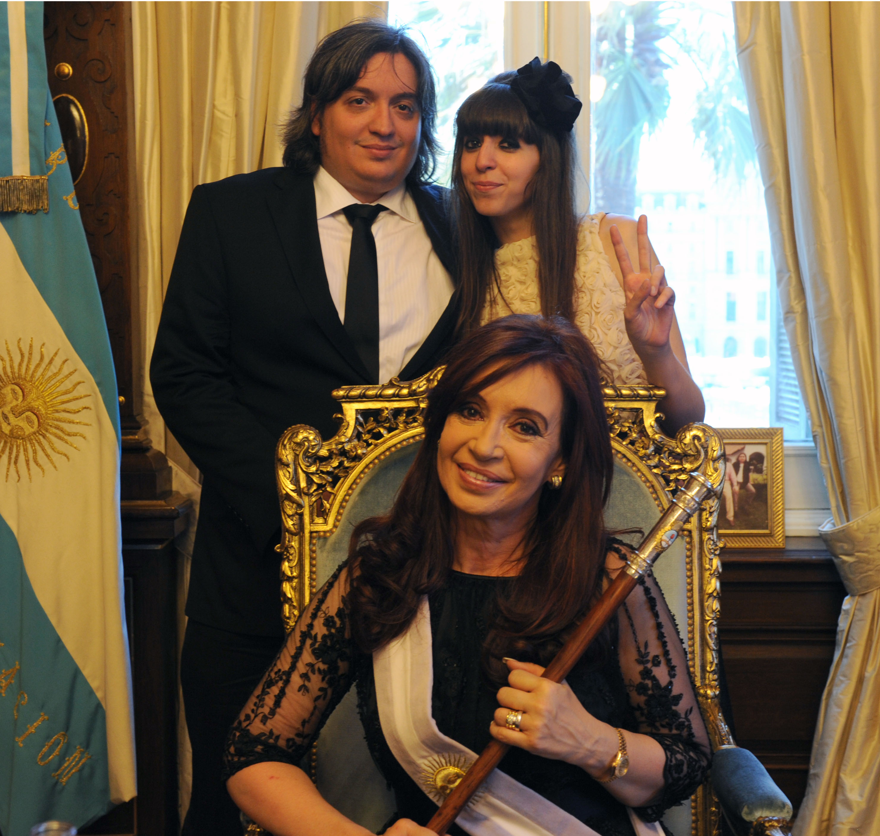 Second Inauguration of Cristina Fernández de Kirchner. In the image can be seen her and her children at Casa Rosada. The First Family of Argentina in the presidential office the 10th of december of 2011, day in which Cristina Fernández de Kirchner sworn for second time as the Argentine President.